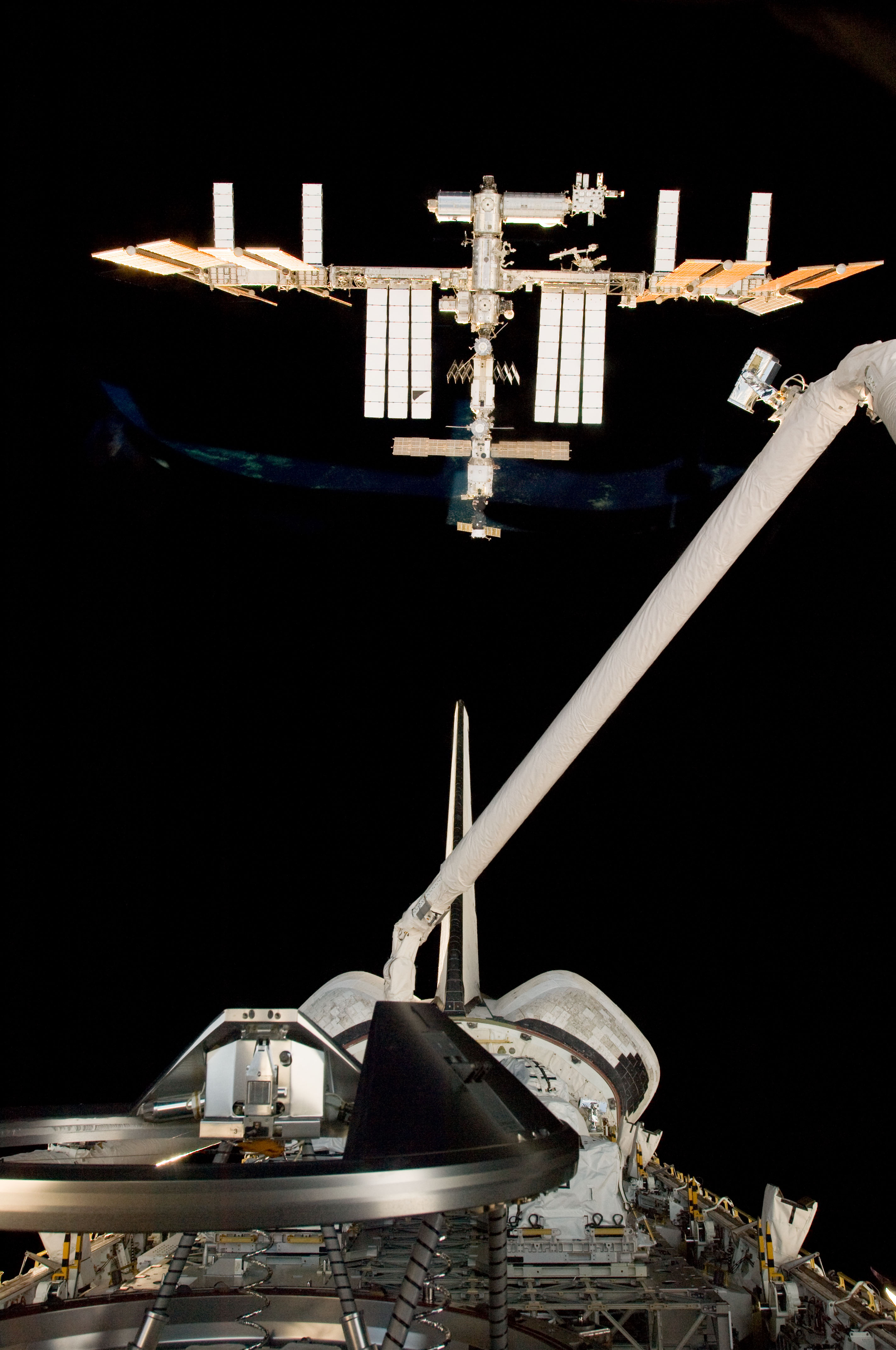 Backdropped by the blackness of space, the International Space Station and Space Shuttle Atlantis' payload bay are featured in this image photographed by an STS-129 crew member as Atlantis and the station approach each other during rendezvous and docking activities on flight day three. Docking occurred at 10:51 a.m. (CST) on Nov. 18, 2009.